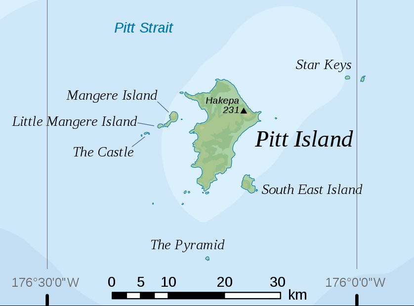 Topographic map of Pitt Island, Chatham Islands, New Zealand